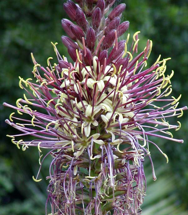 Photo of Agave chiapensis at San Francisco Botanical Garden